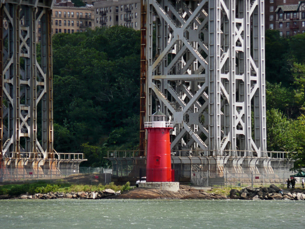 Little Red Lighthouse at the base of the George Washington Bridge. New York City.